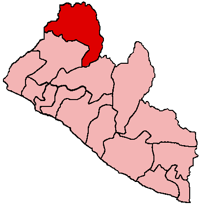 Map of Liberia showing Lofa County; created with the GIMP. Made by User:Acntx.